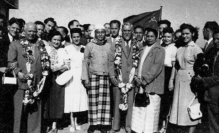 Burmese Prime Minister Thakin Nu (center) with Soviet General Secretary Nikita Khrushchev (far left with floral lei) and Soviet Premier Nikolai Bulganin (right with floral lei) in Rangoon, Burma.